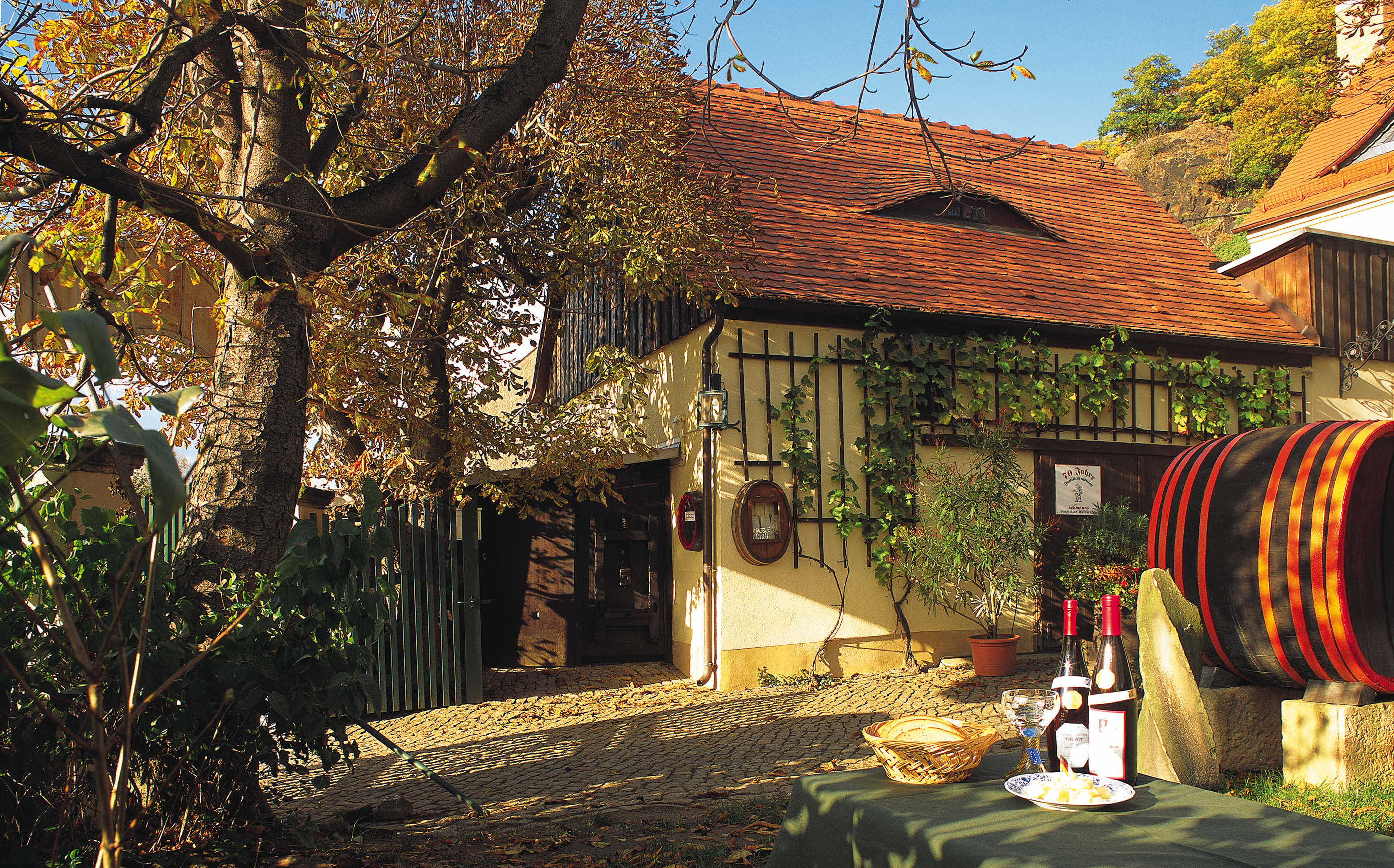 Holidays at the wine-grower's.